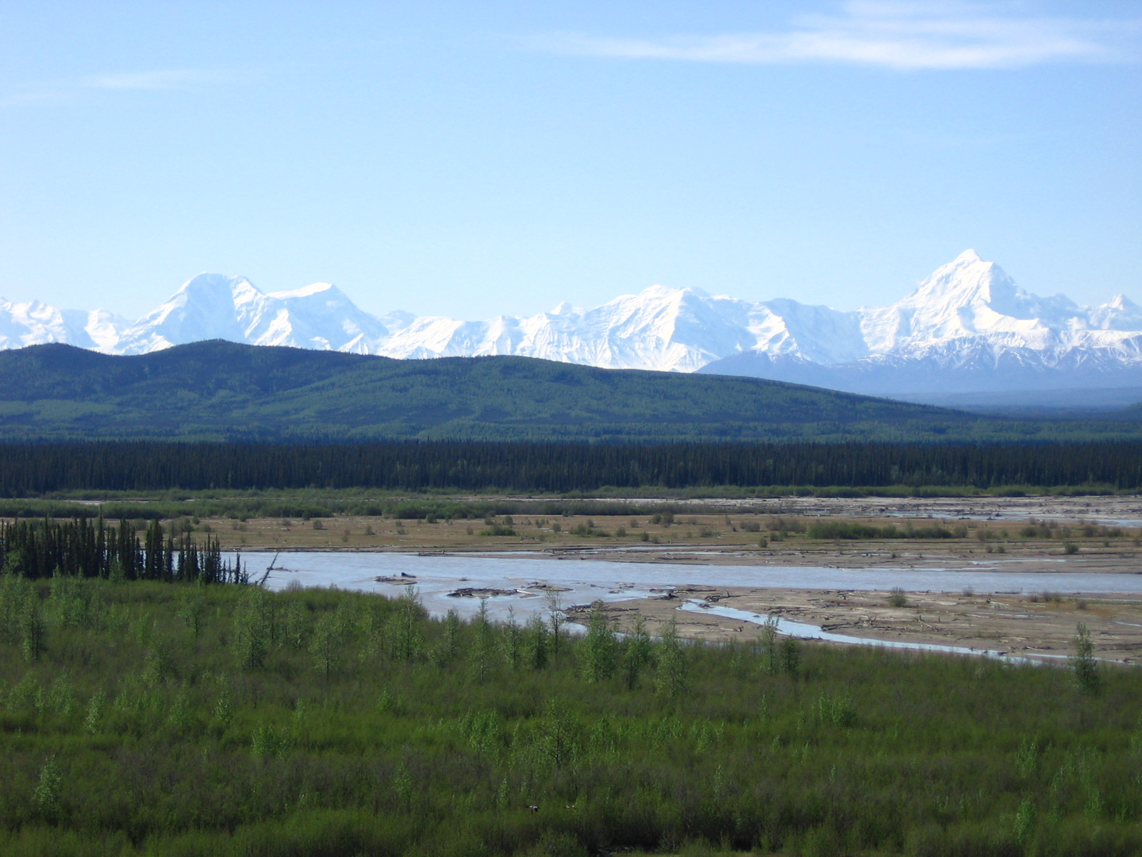 tanana river east of fairbanks